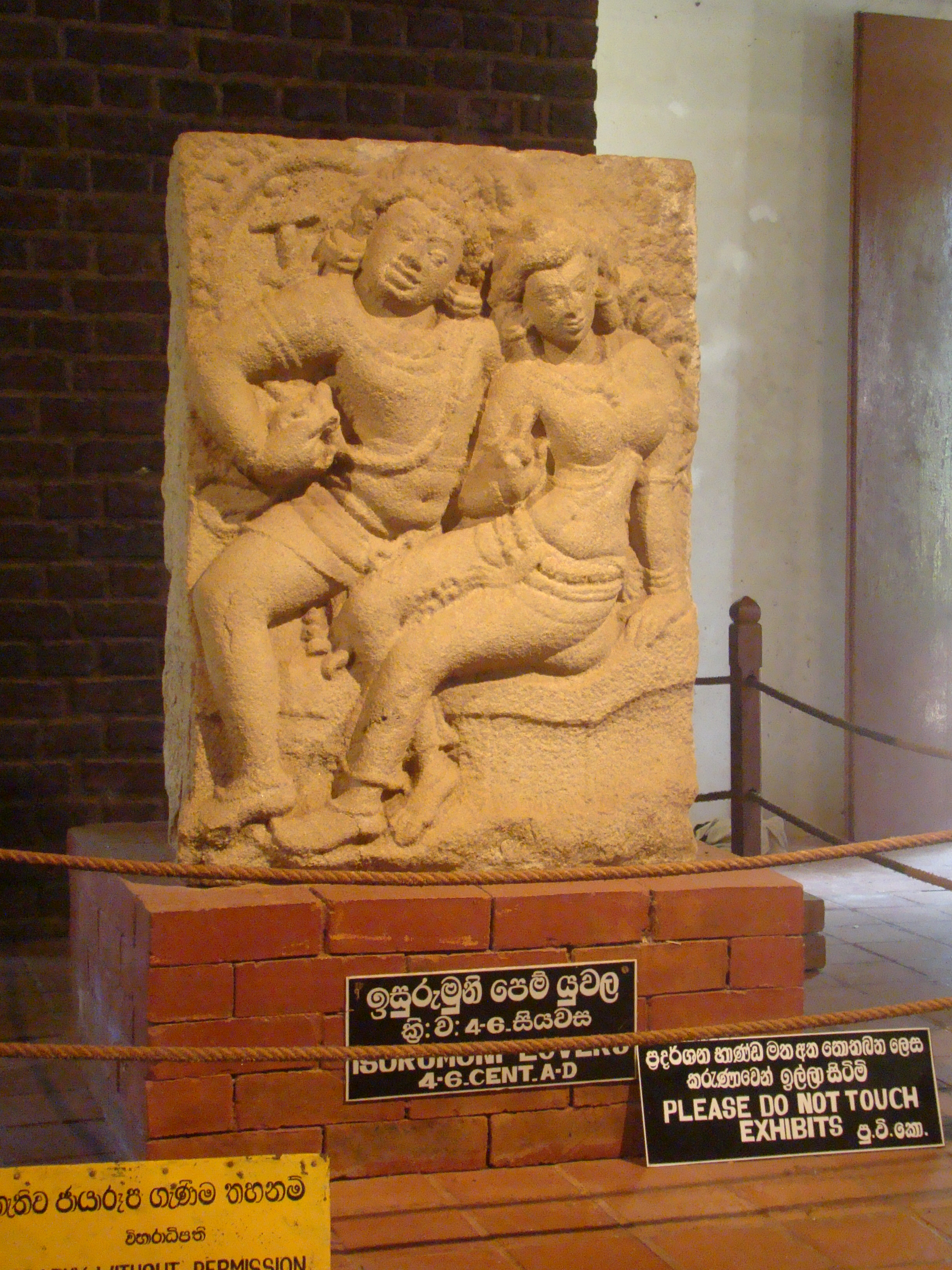 Isrumuniya lovers 4th -6th Century.A-D Gupta style carving represent Dutugemunu's son Saliya and the law caste (Sadol Kula) maiden Asokamala whom he loved. It's known that he gave up the throne for her.